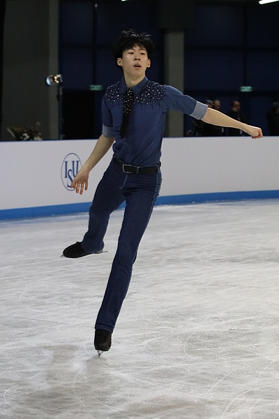 Photos – Junior World Championships 2018 – Men (Sihyeong LEE KOR – 11th Place)